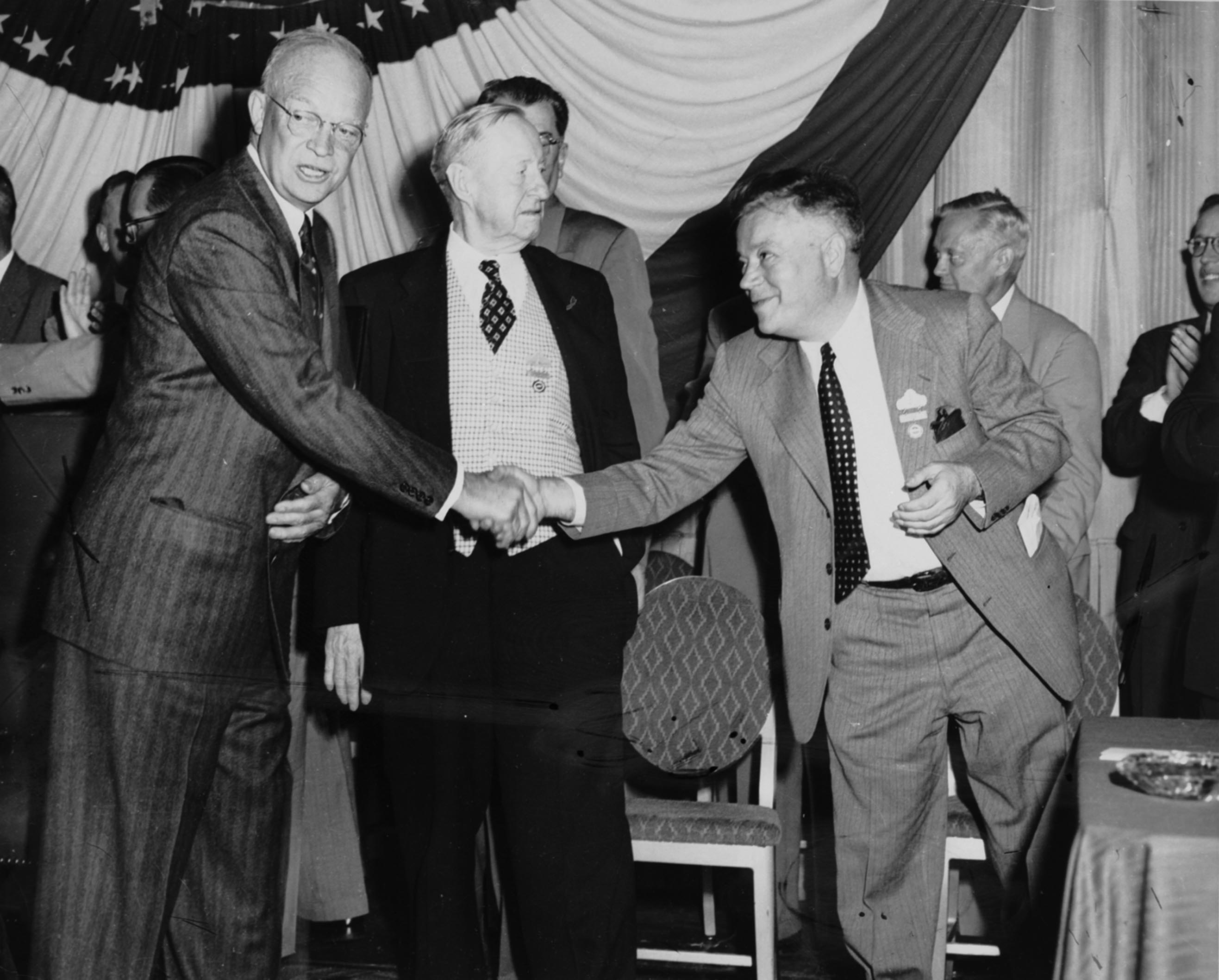 Title: David Dubinsky shakes hands with President Dwight Eisenhower at the AFL convention, September 15, 1952. Date: 1952 Photographer: Unknown Photo ID: 5780PB1F5E Collection: International Ladies Garment Workers Union Photographs (1885-1985) Repository: The Kheel Center for Labor-Management Documentation and Archives in the ILR School at Cornell University is the Catherwood Library unit that collects, preserves, and makes accessible special collections documenting the history of the workplace and labor relations. Notes: No additional information available. Copyright: The copyright status of this image is unknown. It may also be subject to third party rights of privacy or publicity. Images are being made available for purposes of private study, scholarship, and research. The Kheel Center would like to learn more about this image and hear from any copyright owners who are not properly identified so that we may make the necessary corrections. Tags: Kheel Center for Labor-Management Documentation and Archives,Cornell University Library,Conventions, Labor Leaders, Public Figures